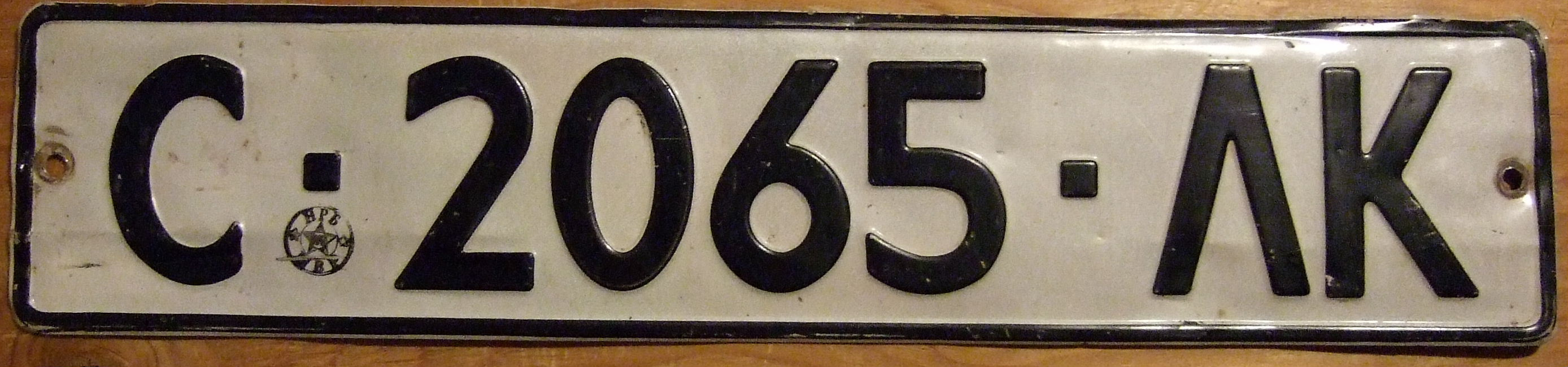 1992 series license plate from Sofia Bulgaria.